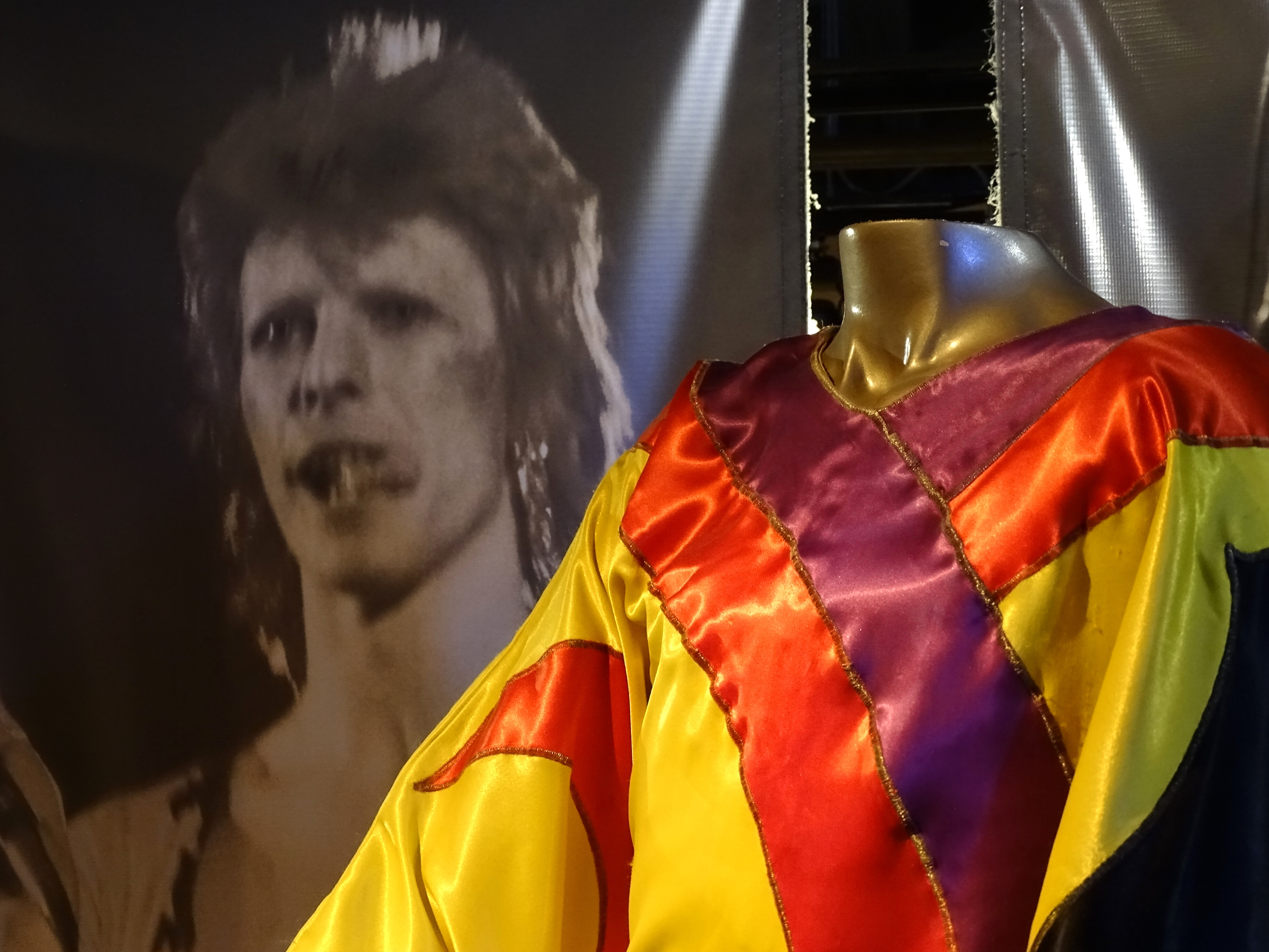 David Bowie - Ziggy Stardust Tour Outfit 1972 - Rock & Roll Hall of Fame and Museum - Cleveland - Ohio - USA